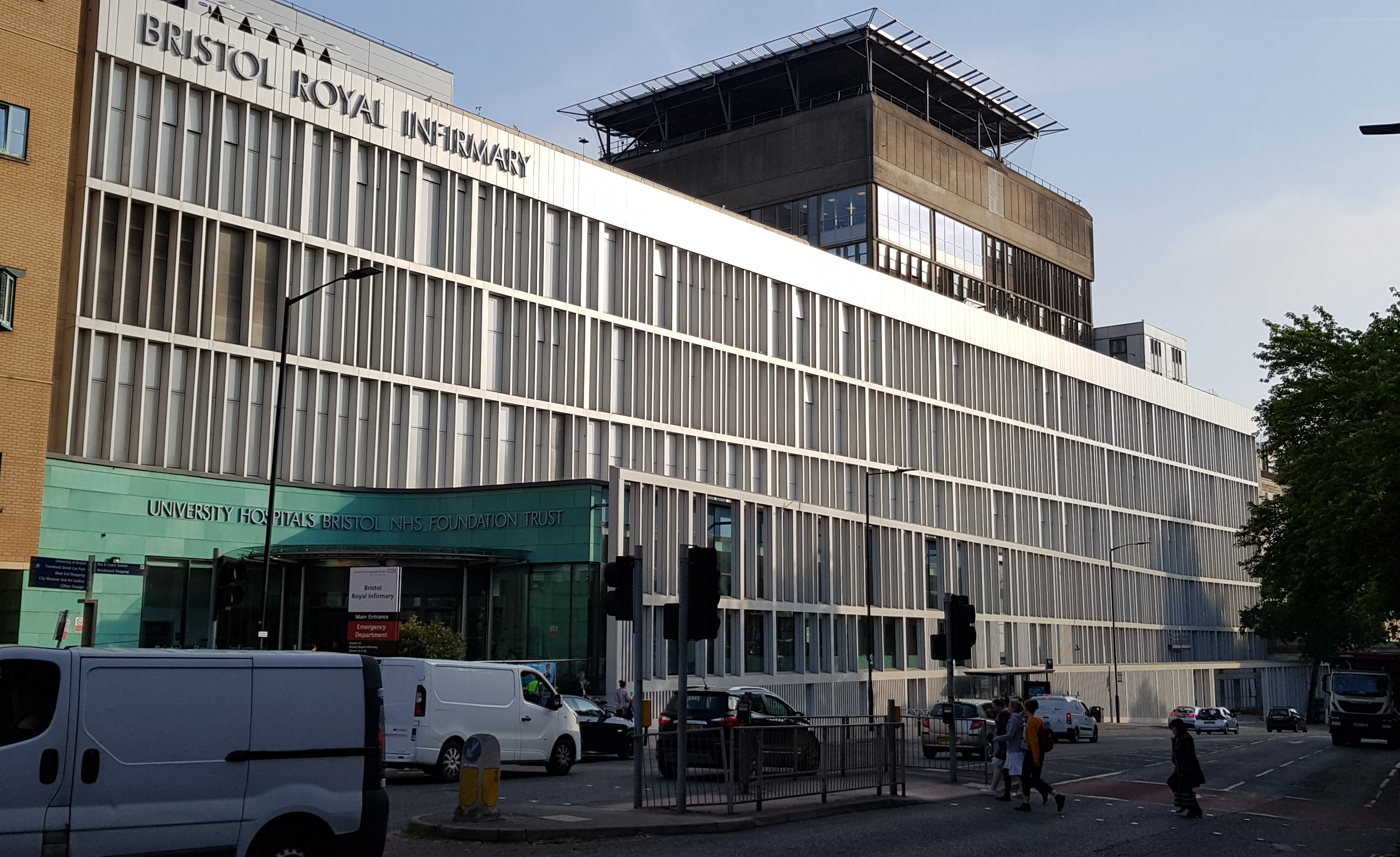 New facade of Bristol Royal Infirmary, Marlborough Street, Bristol, early morning July 2019